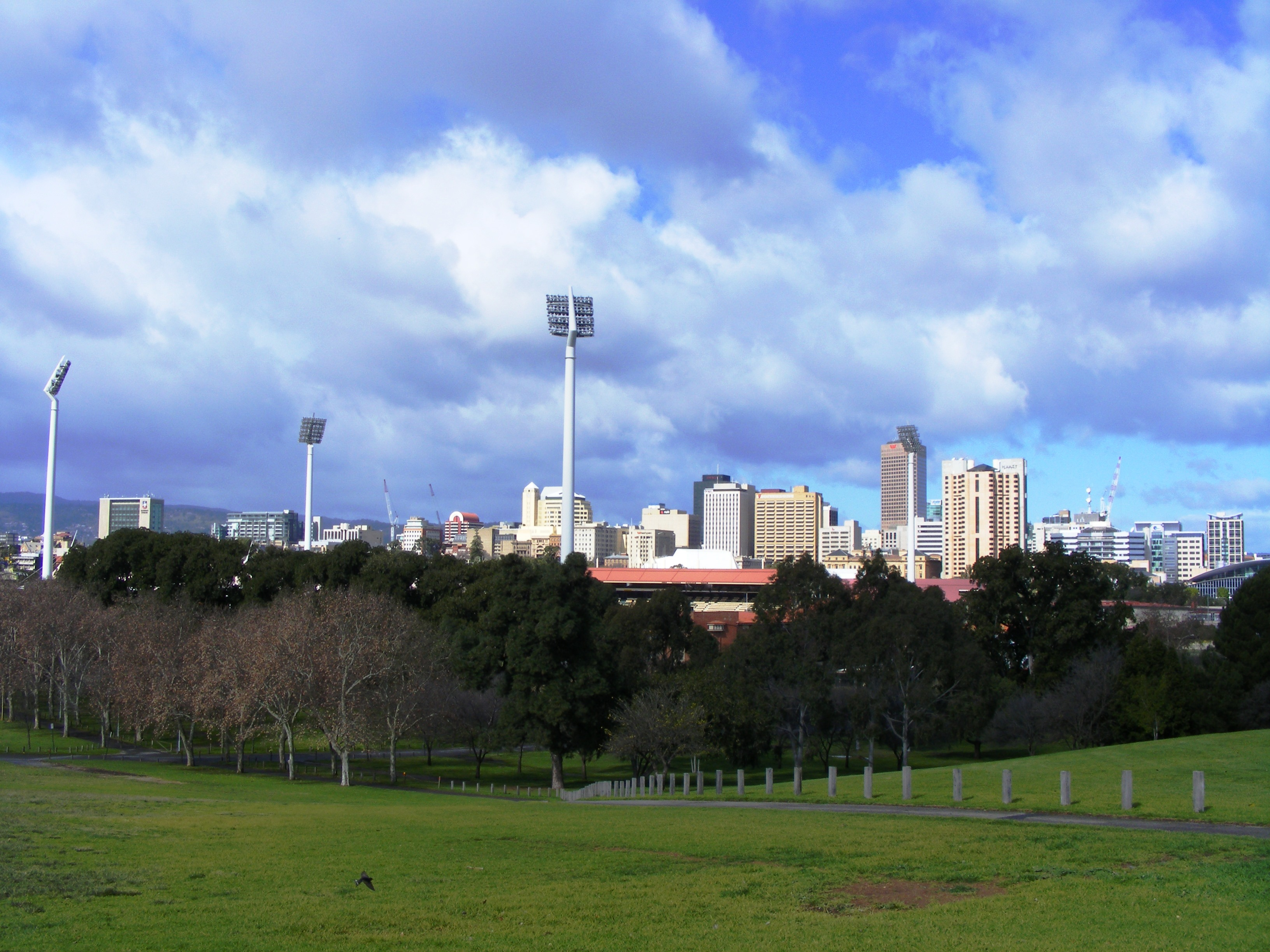 Taken by Norman Hackenberg from Light's View, North Adelaide. See also: Image:AdelaideSkylineAdelaideOval.jpg Image:AdelaideSkylineAdelaideOvalCloseUp.jpg